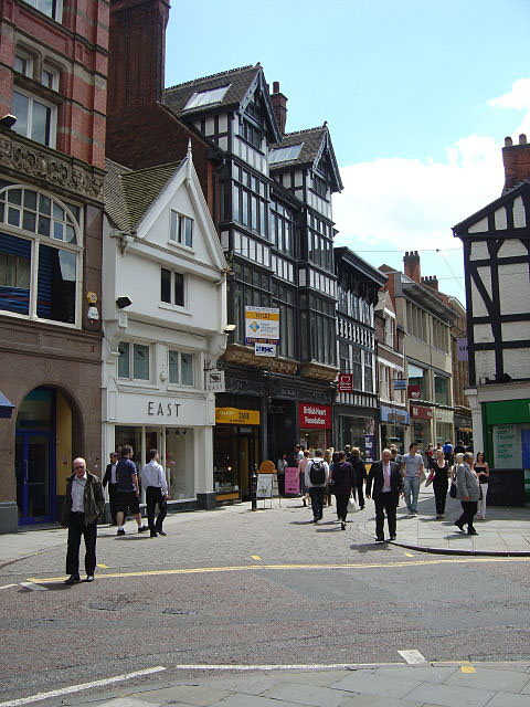 Bridlesmith Gate A busy pedestrianised street with smaller retail units. It is part of the main pedestrian access between the Victoria and Broad Marsh shopping centres.